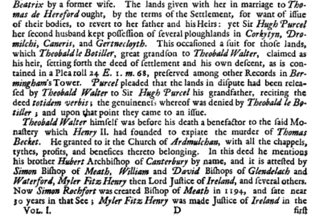 The description of the land dispute